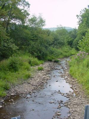 Grassy Lick Run, a North River tributary, viewed from the bridge on Rock Oak Road (CR 10/6) in Kirby. Looking north.